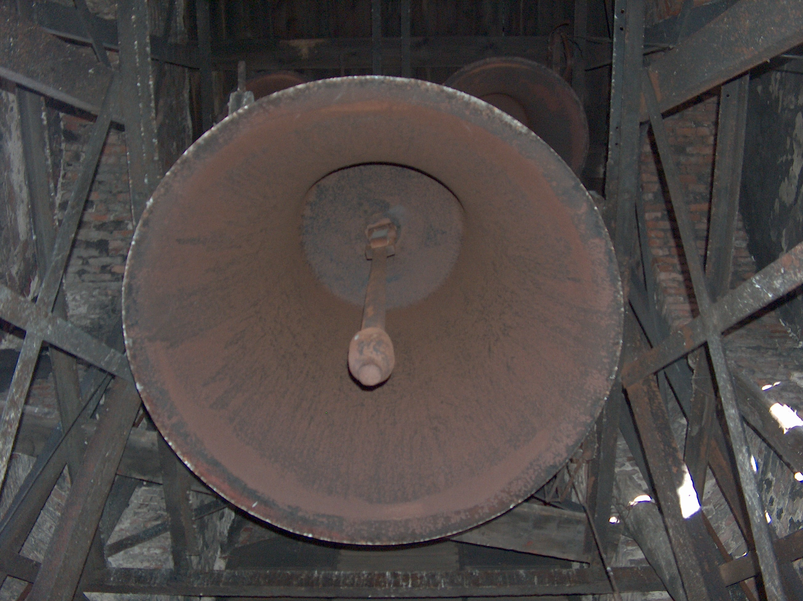 Bells on tower Our Savior Lutheran Church in Szopienice.